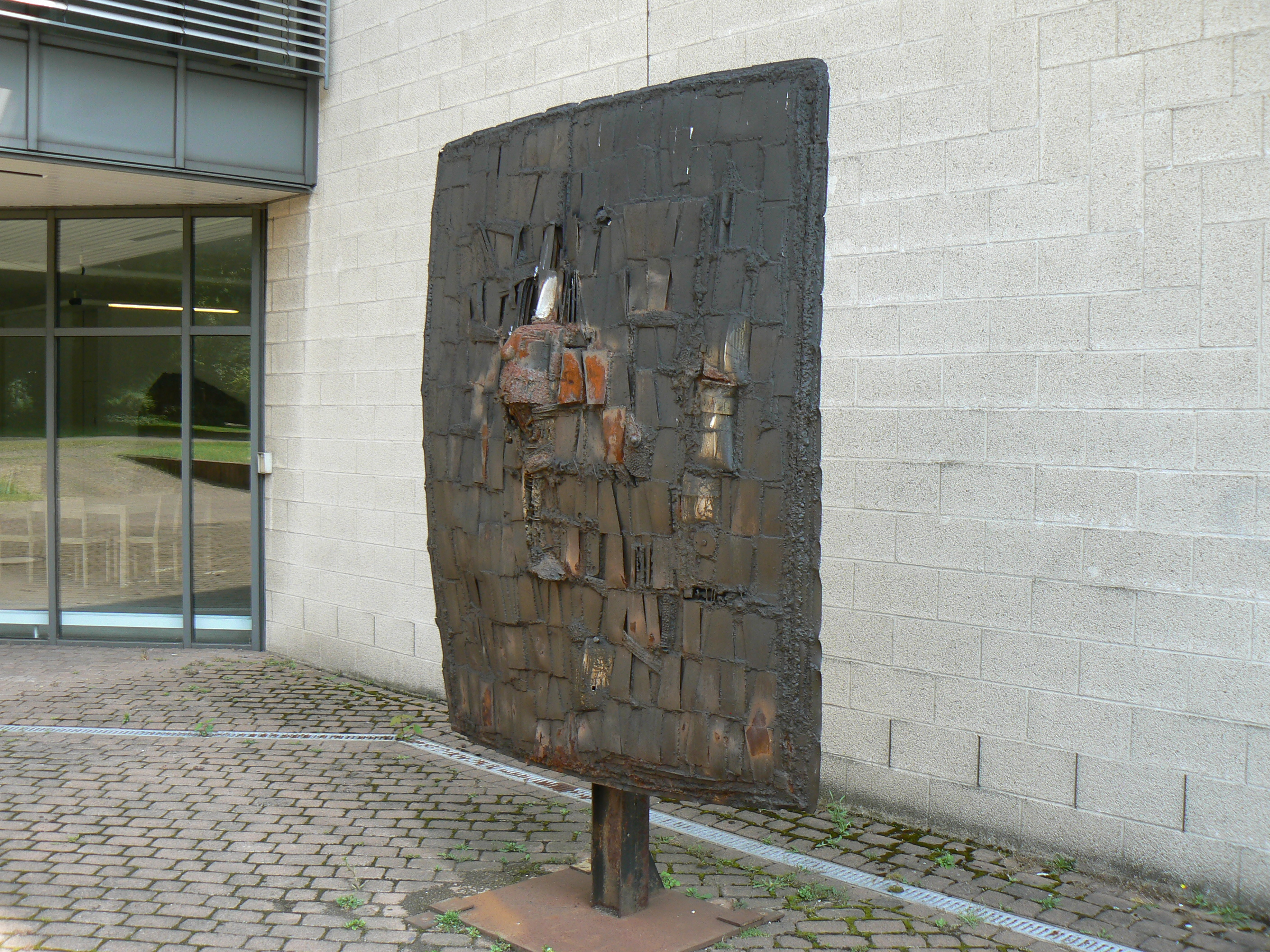 sculpture L'Homme de Figanieres (1964) by César (Baldaccini) in Duisburg/Germany